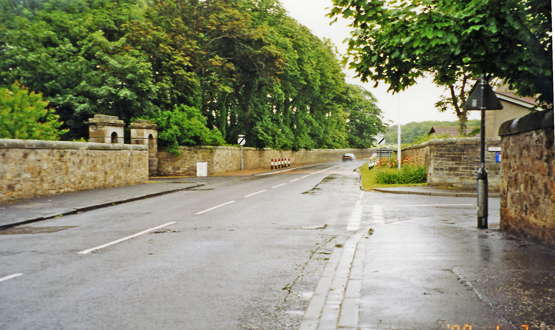 Elie: eastward on A917 road past site of former station, 2002. View eastward, towards Anstruher, Crail and St Andrews: ex-NBR Thornton Junction - Crail- St Andrews line. The station was closed 6/9/65 along with the line Leven - Crail, Crail - St Andrews having closed 5/10/64 and Thornton Junction - Leven 6/10/69. On the left is the park of Elie House.